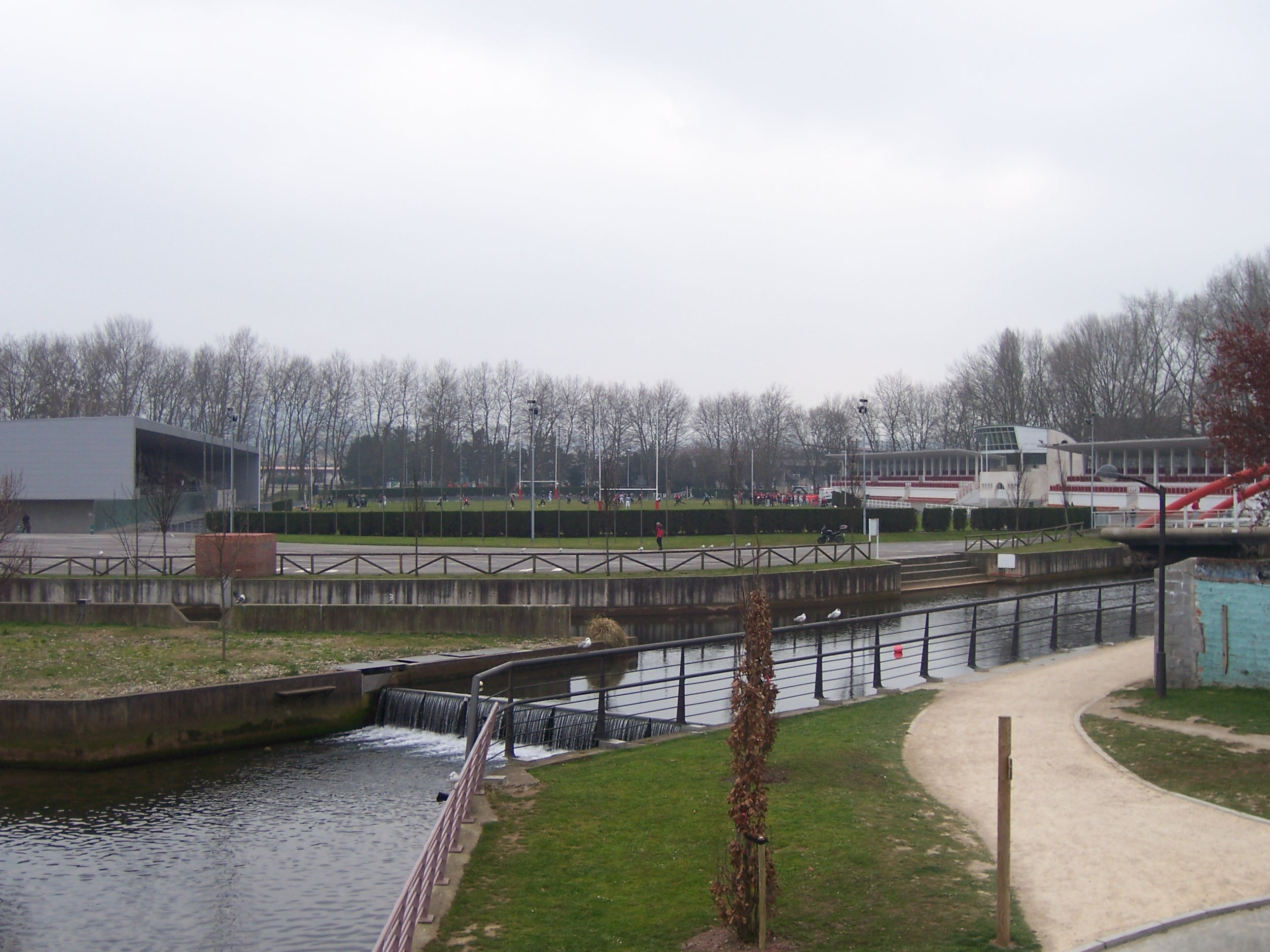 Las Mestas Athletic Complex